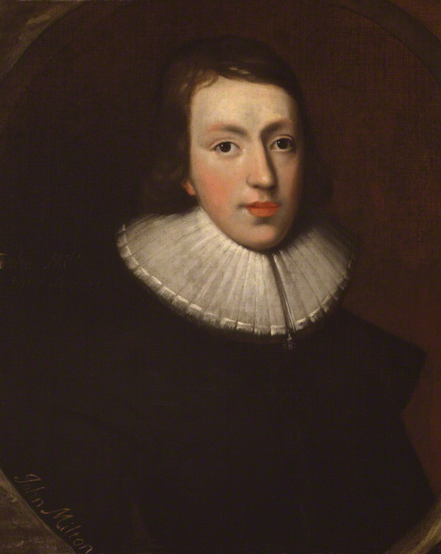 Portrait of John Milton in National Portrait Gallery, London (detail)